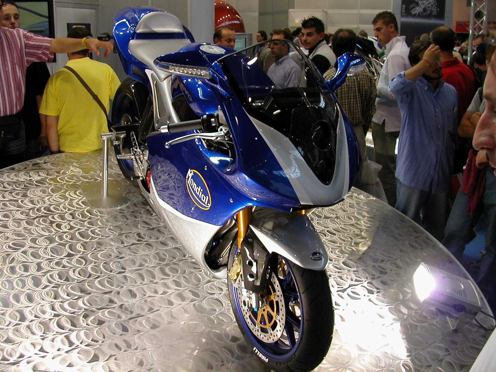 EICMA 2003 Milan moto show